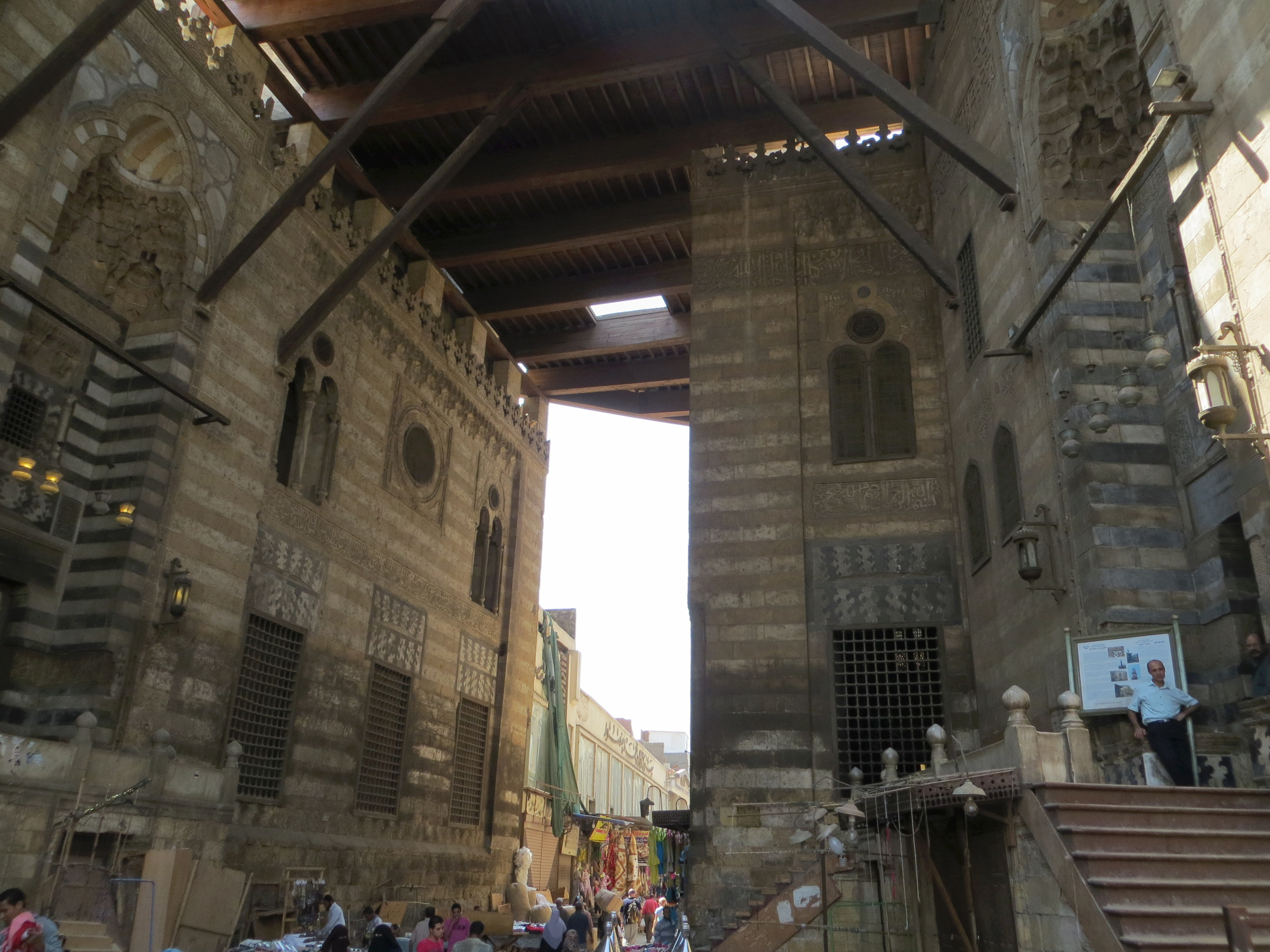 Al-Ghuri Complex, Cairo